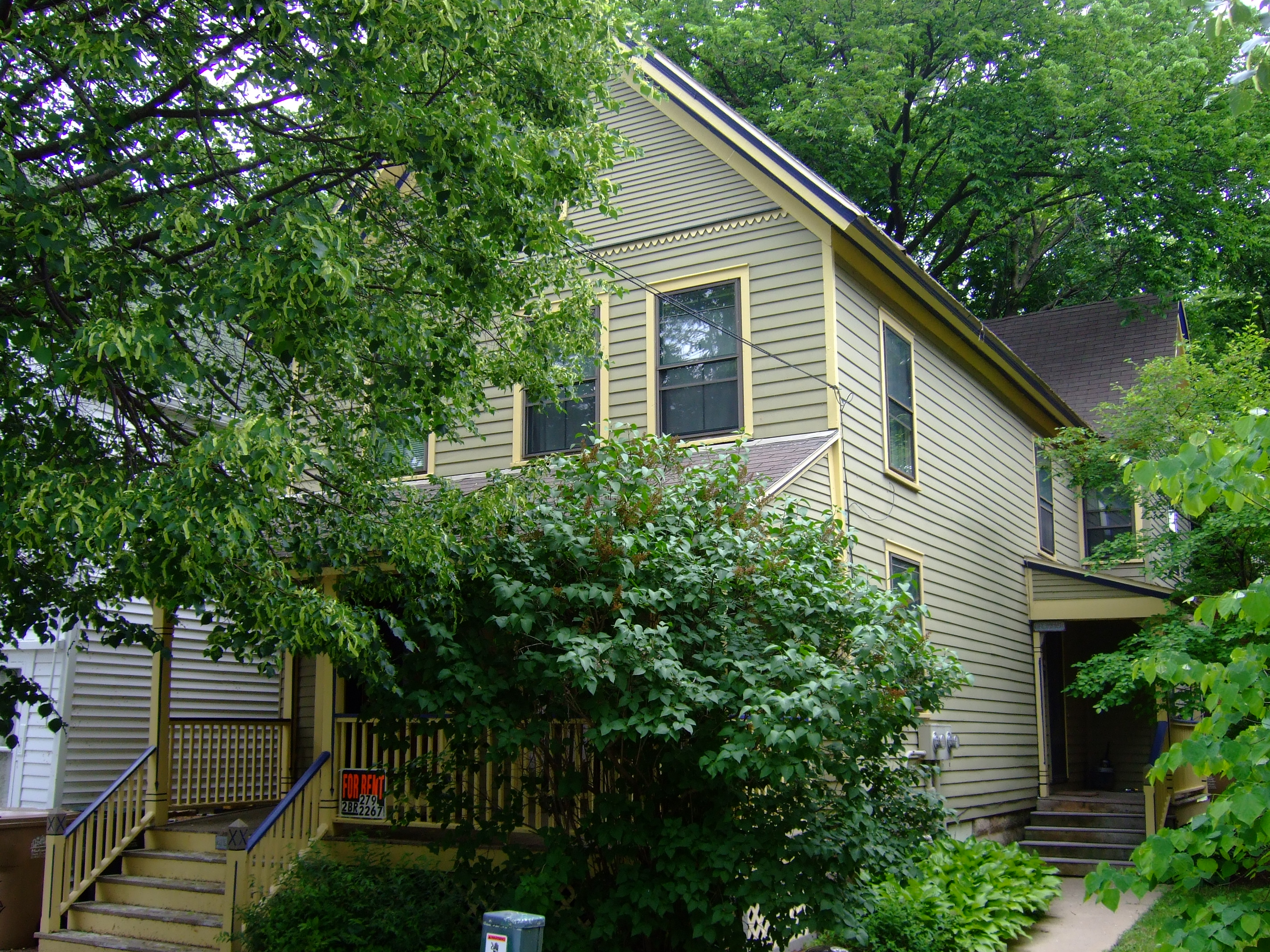 The William and Anna May Miller House (1853) in Madison, Wisconsin, was built by photographer Frederick Conover. It was moved from its original location at the corner of Pinckney and Johnson Streets to its present location at 647 E. Dayton Street in 1904 by William Miller, an aide of "Fighting Bob" La Follette. It was added to the National Register of Historic Places in 1979.